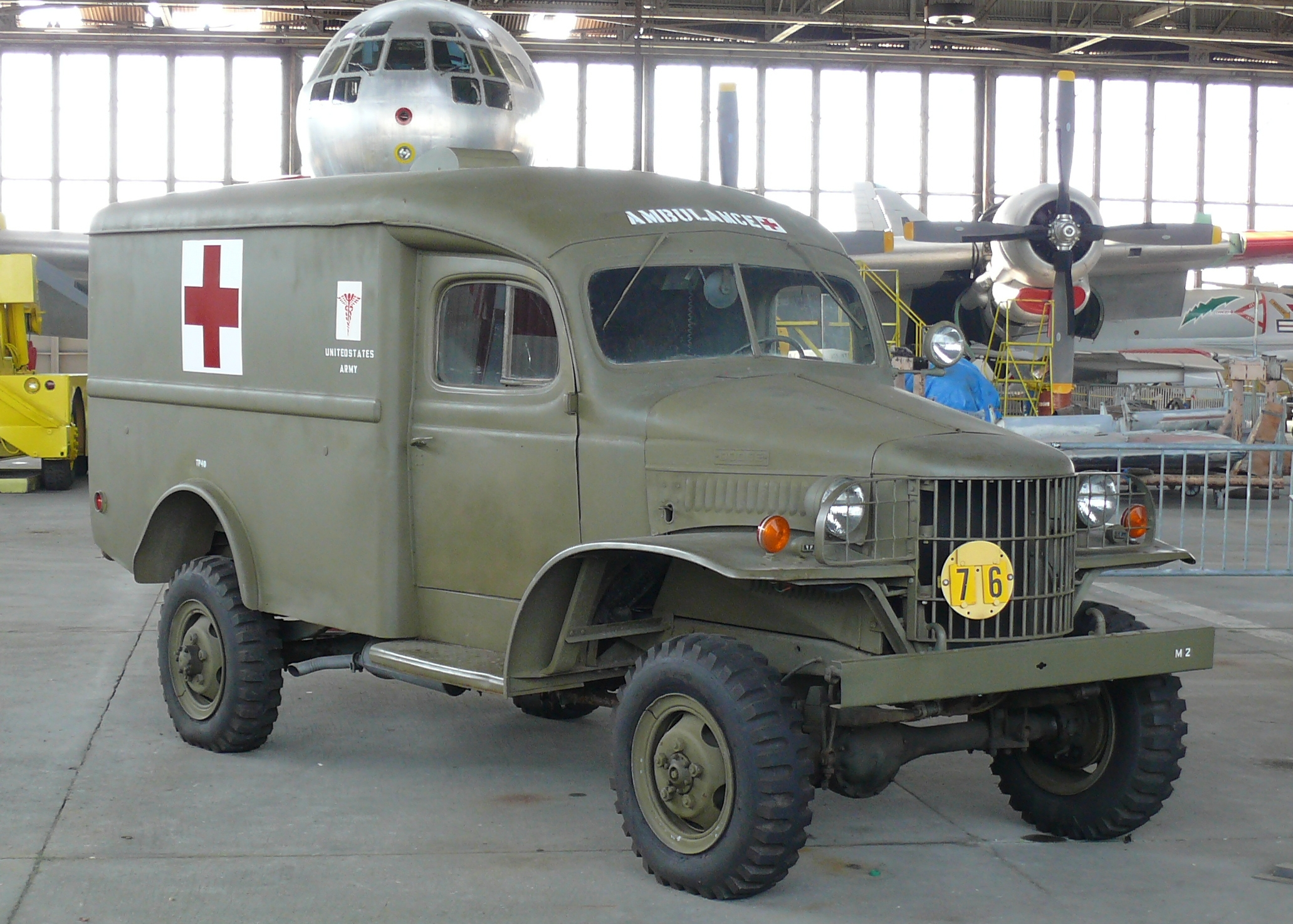 Dodge WC-27 Ambulance in the Historic Aircraft Restoration Project on Floyd Bennett Field (hangar B) in the Gateway National Recreation Area (NY, NJ). The Dodge WC-27 is a model in the lightweight and versatile Dodge half-ton 4x4 G505 WC series of trucks that were built during 1941 and 1942. They were the first Dodge all-military design developed in the build-up to full mobilization for World War II. The series included weapon carriers, telephone installation trucks, ambulances, reconnaissance vehicles, mobile workshops and command cars. The Dodge WC-27 entered production during 1941 to early 1942 and were specifically designed to serve as military ambulances. These early variants are distinguishable from the later ones by having a curved radiator grille. In the background a Boeing C-97 G Stratofreighter (cn 52-2718) and a former U.S. Navy Douglas A-4B Skyhawk (BuNo 142829 c/n 11891).